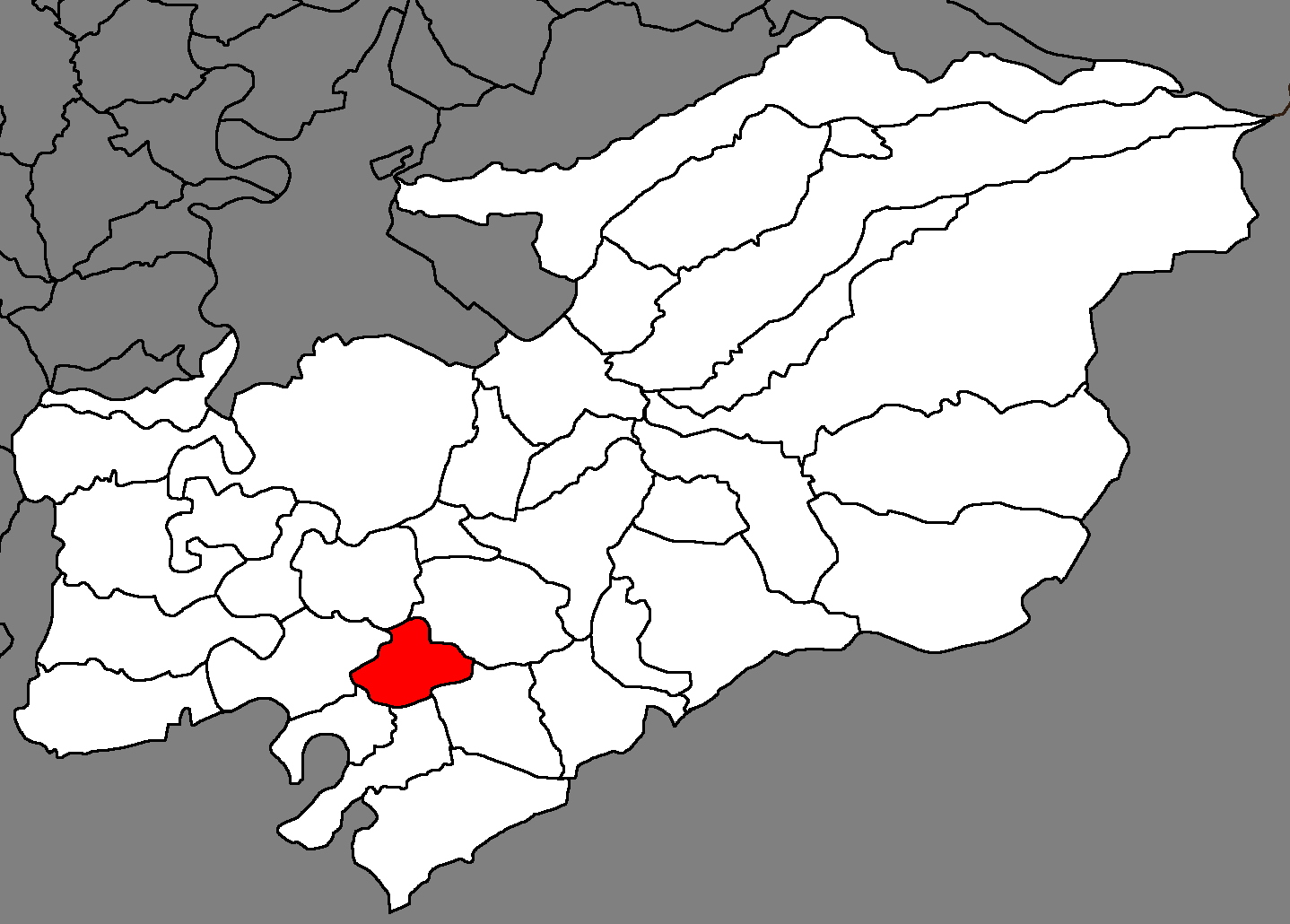 Map of Ratare in Paracin.